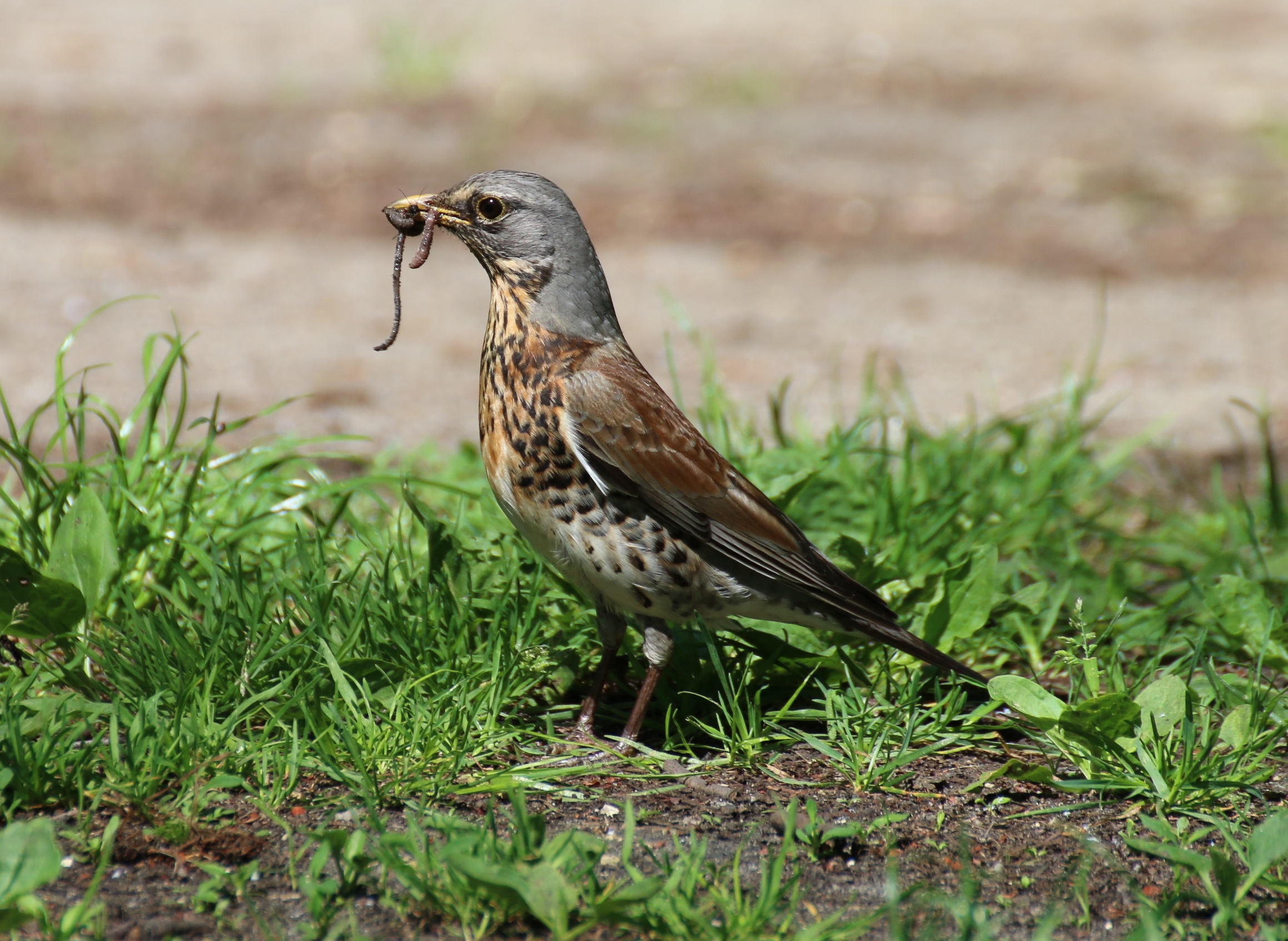 Turdus pillaris eating worms